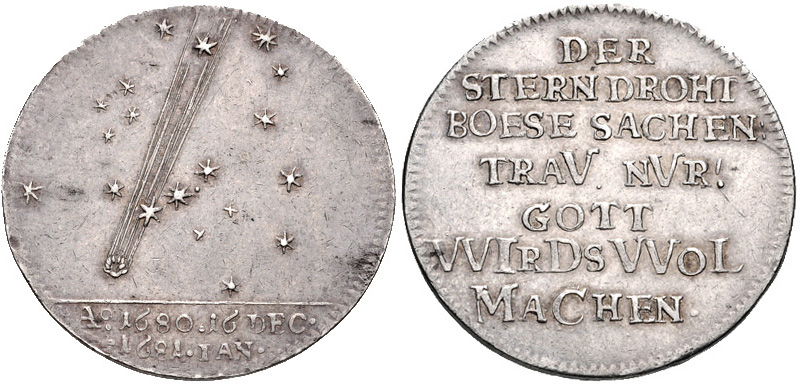 GERMANY, Hamburg (Stadt). AR Medal (27mm, 5.25 g, 12h). Commemorating the Discovery of the ‘Great Comet’. Dated 1681 in chronogram on the reverse. Comet descending through a starry sky; in two lines in exergue, Ao 1680 · 16 DEC ·/· 1681 · IAN · / DER/STERN DROHT/BOESE SACHEN:/TRAV NVR’/GOTT/VVIRDS VVOL/MACHEN · (the star threatens evil, but trust in God, and he will make it well) in seven lines. (The enlarged letters form a Roman numeral chronogram for 1681.)